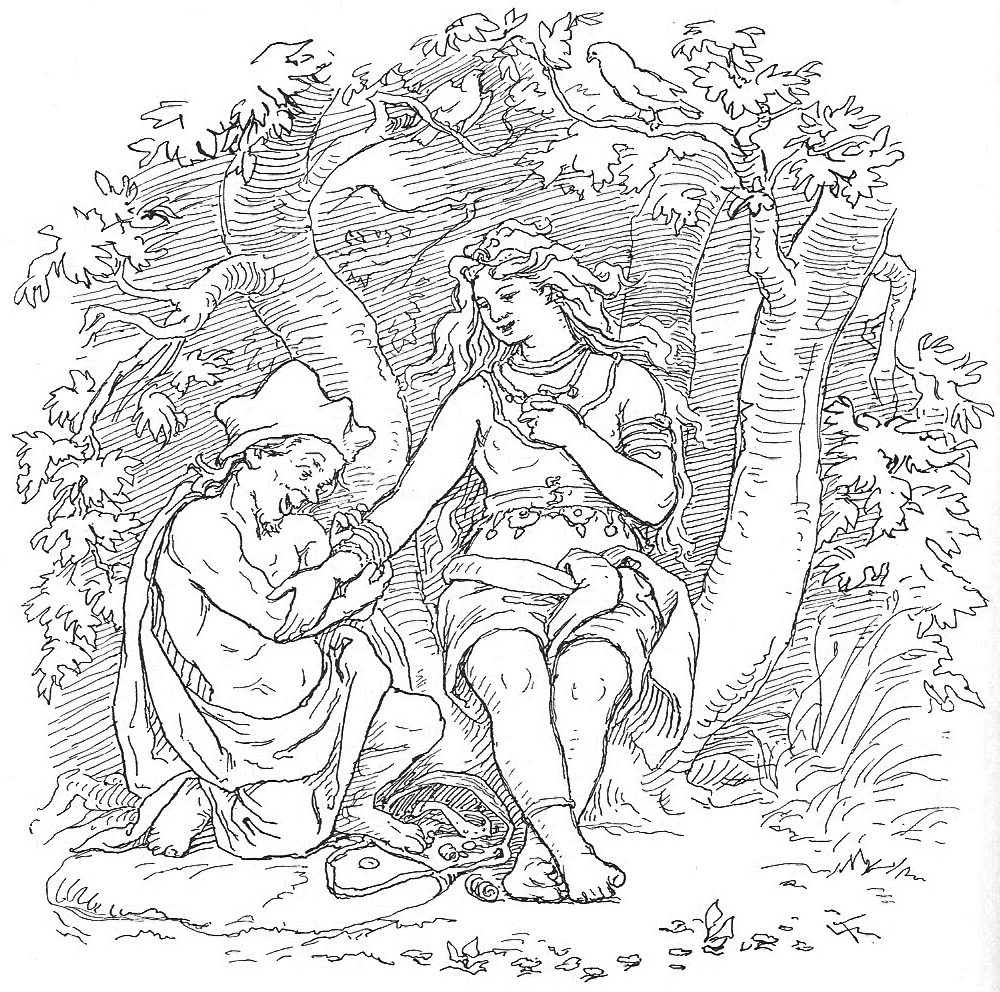 The dwarf Alvíss puts a ring around the arm of Þrúðr, who looks on him smiling. The signature of the artist (an LFR-ligature) is in the lower right corner.